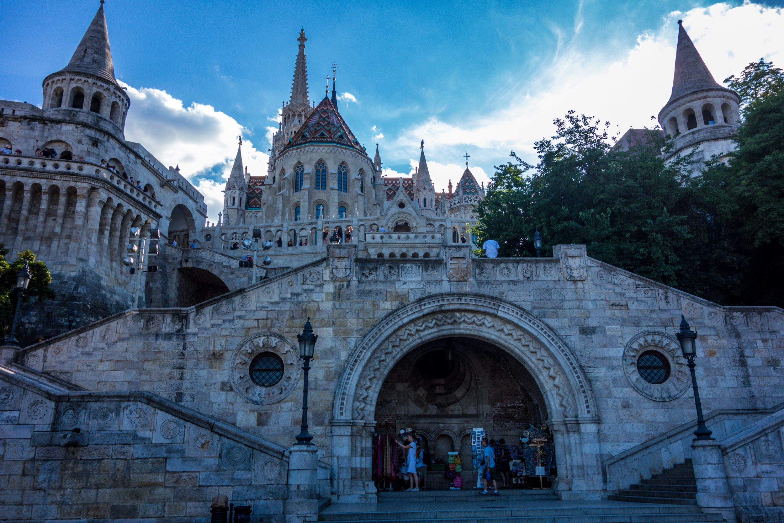 Hungary - Budapest